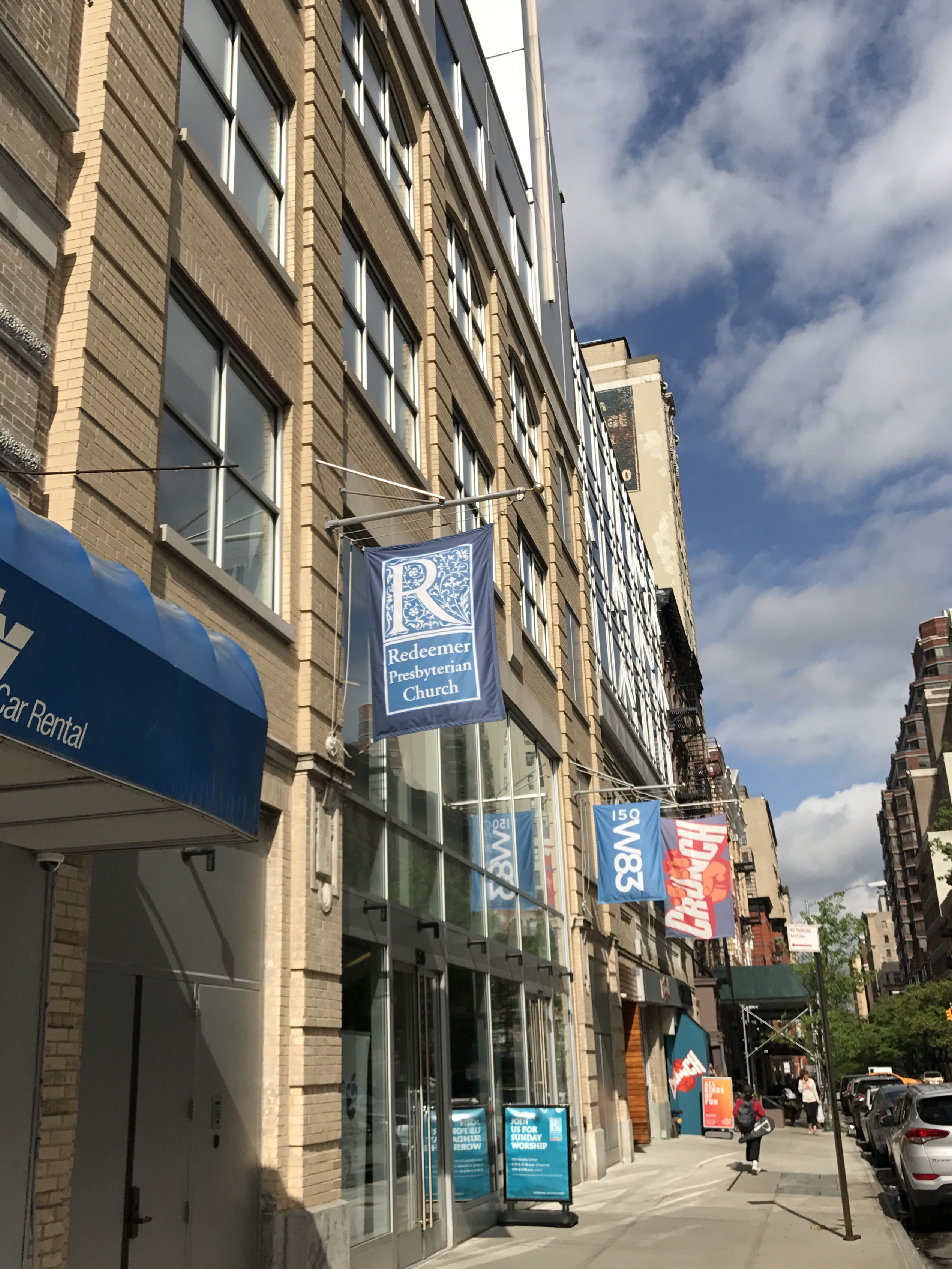 A picture of 150 West 83rd Street in New York City, the home of Redeemer Presbyterian Church.